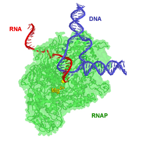 Image of a model of Thermus aquaticus RNA Polymerase complexed to DNA and RNA